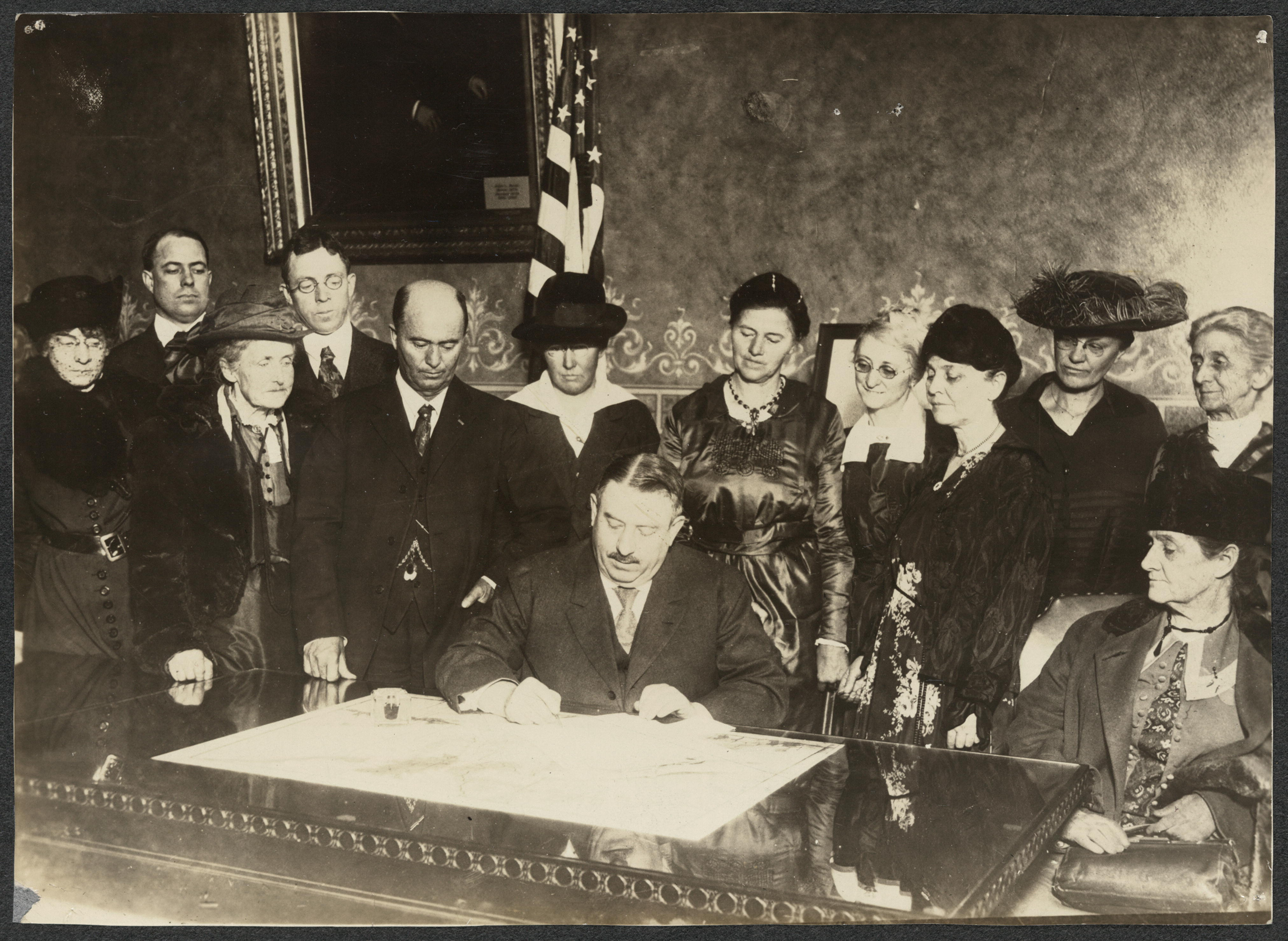 Photograph of crowd of people standing around desk as ratification document is signed.